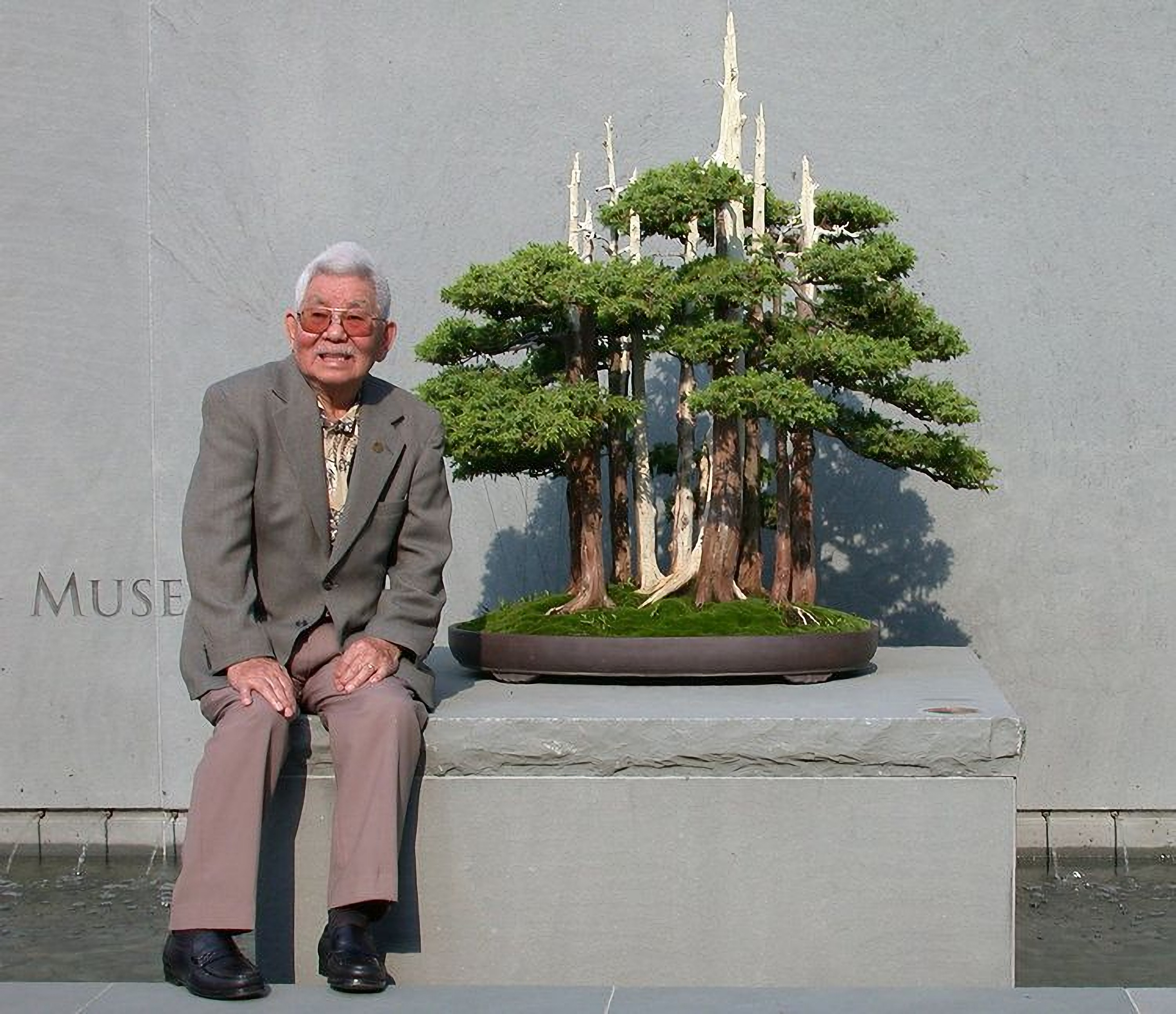 John Naka with the bonsai Goshin John Y. Naka North American Pavilion, National Arboretum.